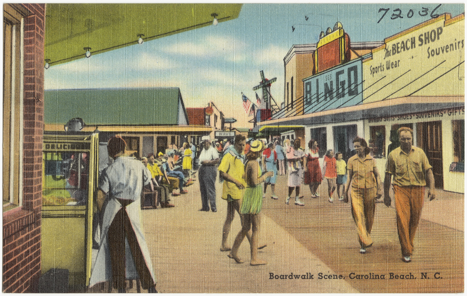 File name: 06_10_015810 Title: Boardwalk scene, Carolina Beach, N. C. Created/Published: Pub. by E. C. Moore & Co., Wilmington, N.C.; Tichnor Bros. Inc., Boston, Mass. Date issued: 1930 - 1945 (approximate) Physical description: 1 print (postcard) : linen texture, color ; 3 1/2 x 5 1/2 in. Genre: Postcards Subjects: Boardwalks Notes: Collection: The Tichnor Brothers Collection Location: Boston Public Library, Print Department Rights: No known restrictions